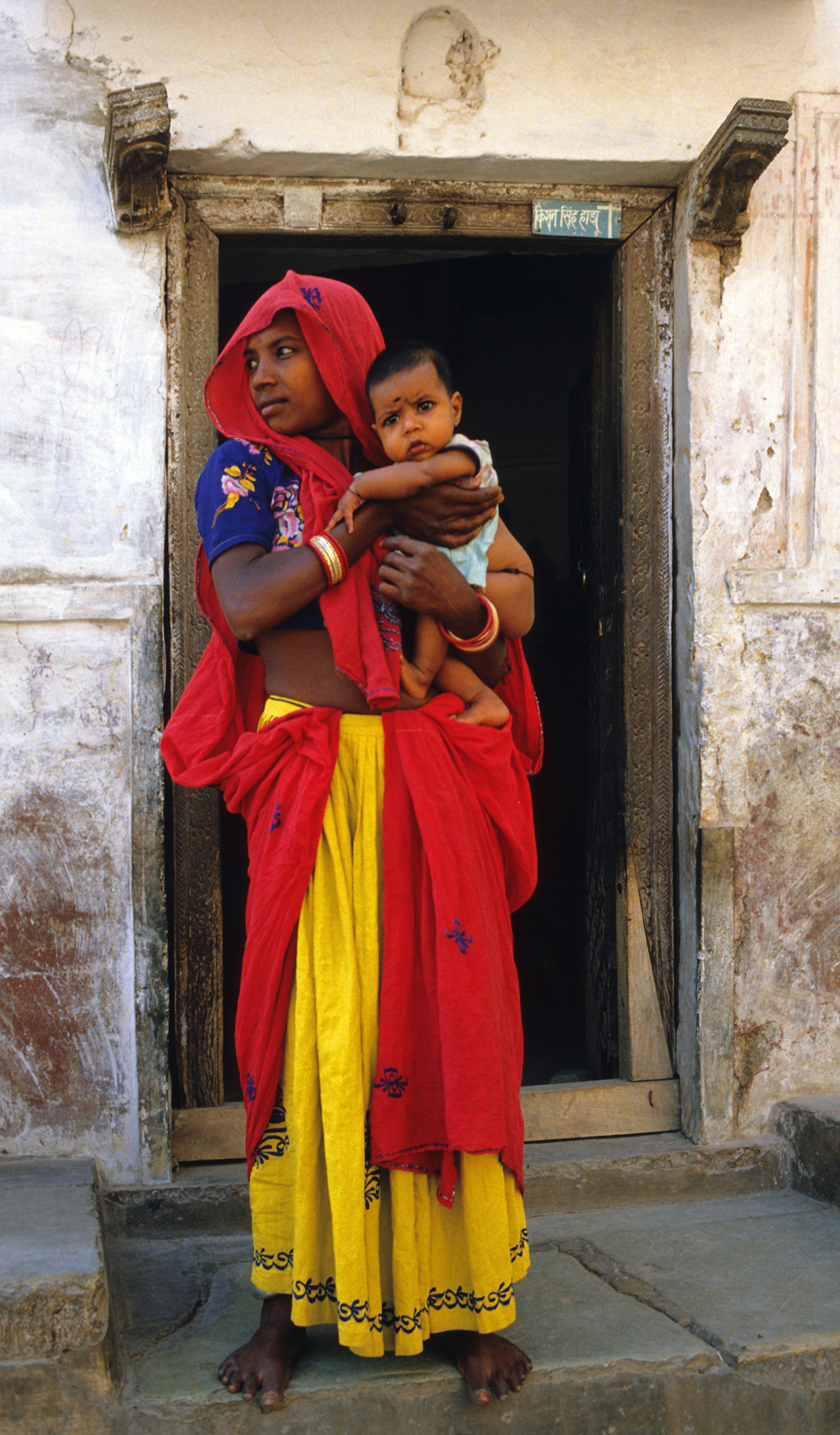 Mother and child in Bundi, Rajasthan, India in the year 1986.